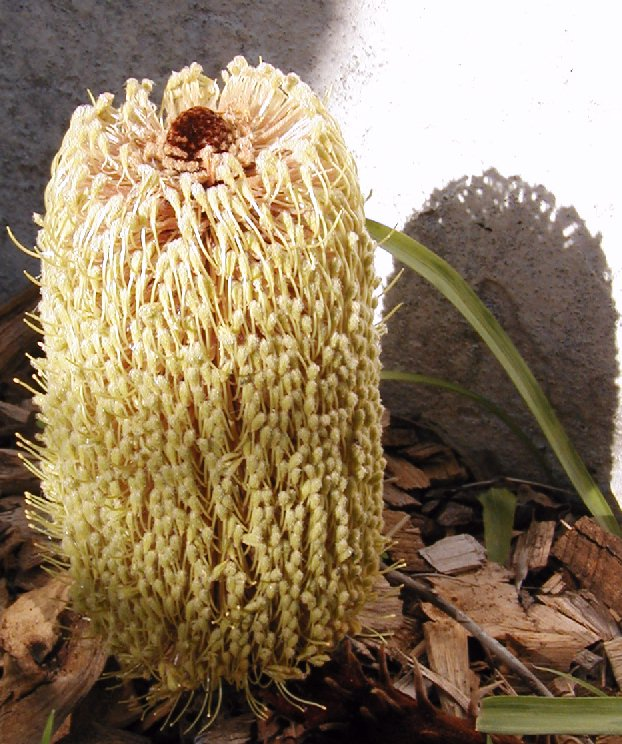 Banksia petiolaris inflorescence, cult. Sydney. photo Cas Liber